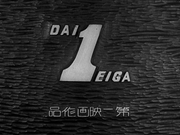 Daiichi Eiga in Kenji Mizoguchi's Gion no kyōdai (1936)